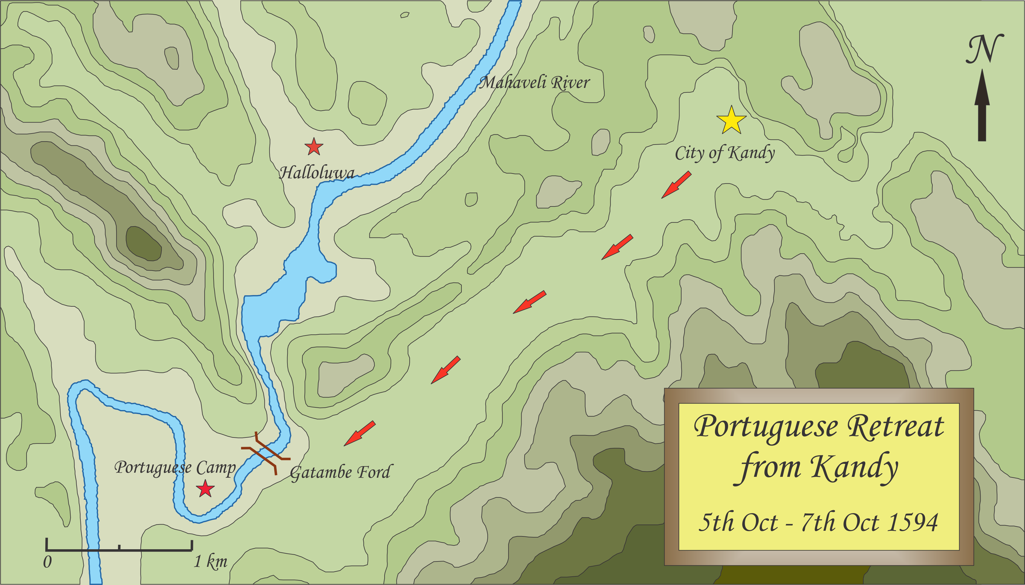 Portuguese retreat from Kandy (5th October to 7th October 1594). Map based on details from: -Fernao de Queyroz. The temporal and spiritual conquest of Ceylon. AES reprint. New Delhi: Asian Educational Services; 1992. p 486-490 ISBN 81-206-0764-3